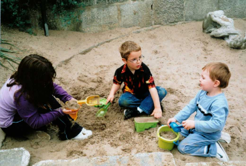 jessica and jack meet a localmaking friends